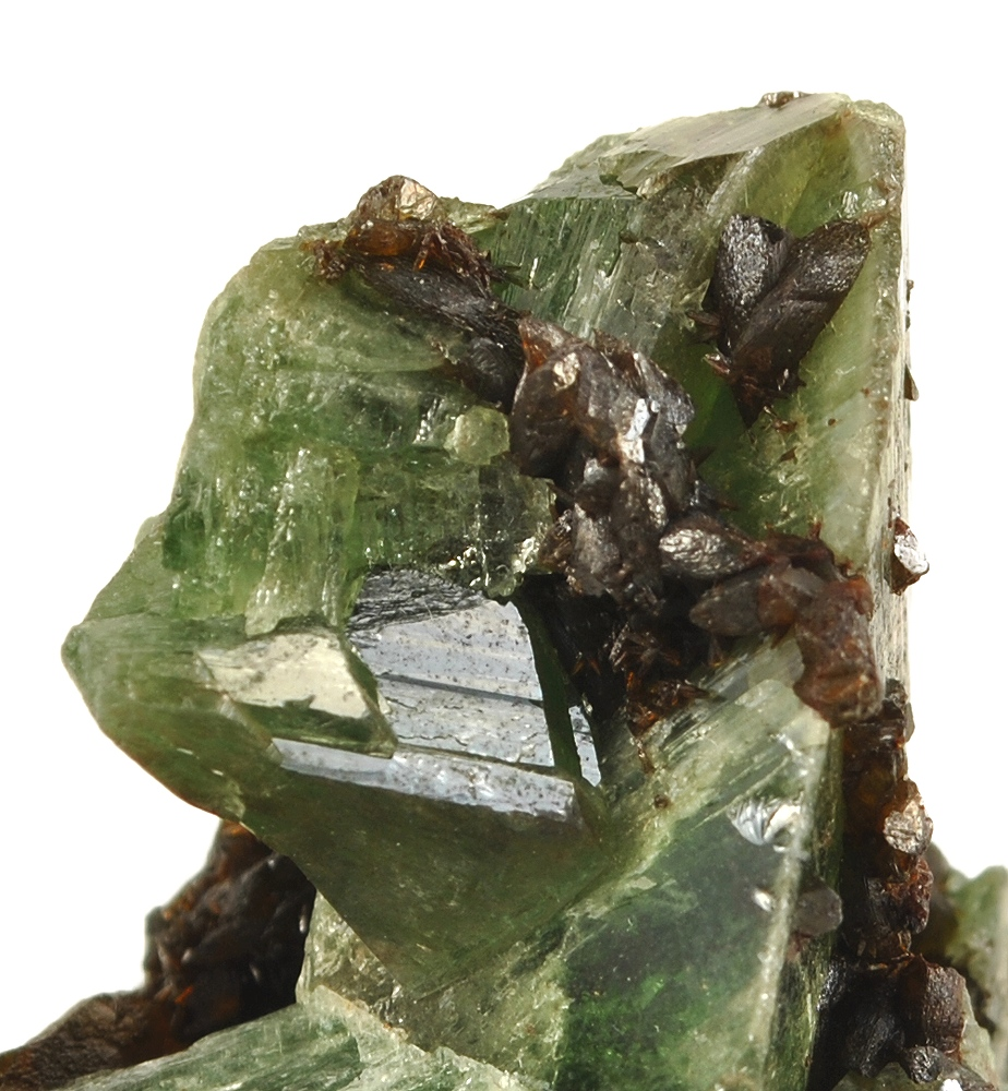 Childrenite, Ludlamite Locality: Laranjeiras, Galiléia, Doce valley, Minas Gerais, Southeast Region, Brazil (Locality at ) Size: miniature, 5.0 x 3.7 x 2.9 cm Ludlamite with Childrenite Sharp, HUGE crystals for the species, to 3.5 cm in length, form a clustering, 3-dimensional tower that is complete all around. This is a spectacular example for both the locale and species. It is also a display-worthy miniature, as a bonus. When I first saw this in an old European collection, I could not believe my eyes. I have seen the occasional Brazilian ludlamite over the years, but nothing that stood out an dgave other locales a real run for their money. The huge crystals on this piece, though, are highly important. Lustrous brown childrenites give some contrast to the cluster, in asssociation. As a species, ludlamite rarely forms large crystals with euhedral crystal habit. This lcoality, like Idaho and England from time to time, have produced examples...but seldom in any quantity or size.